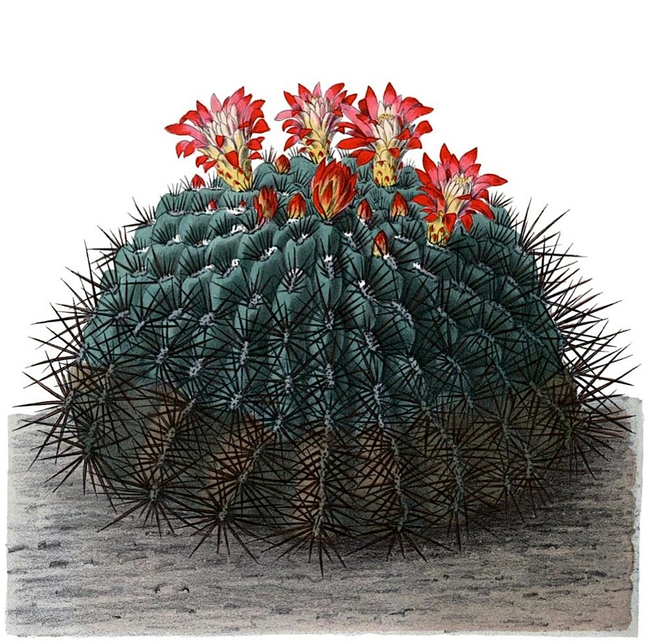 Oroya peruviana